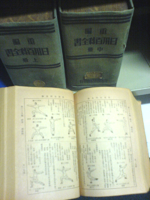 Revised Encyclopedia for Daily Use (Chinese), spine and inner pages. Published August 1934, Shanghai.《重編日用百科全書》（中文），書脊及內頁。1934年上海印行。